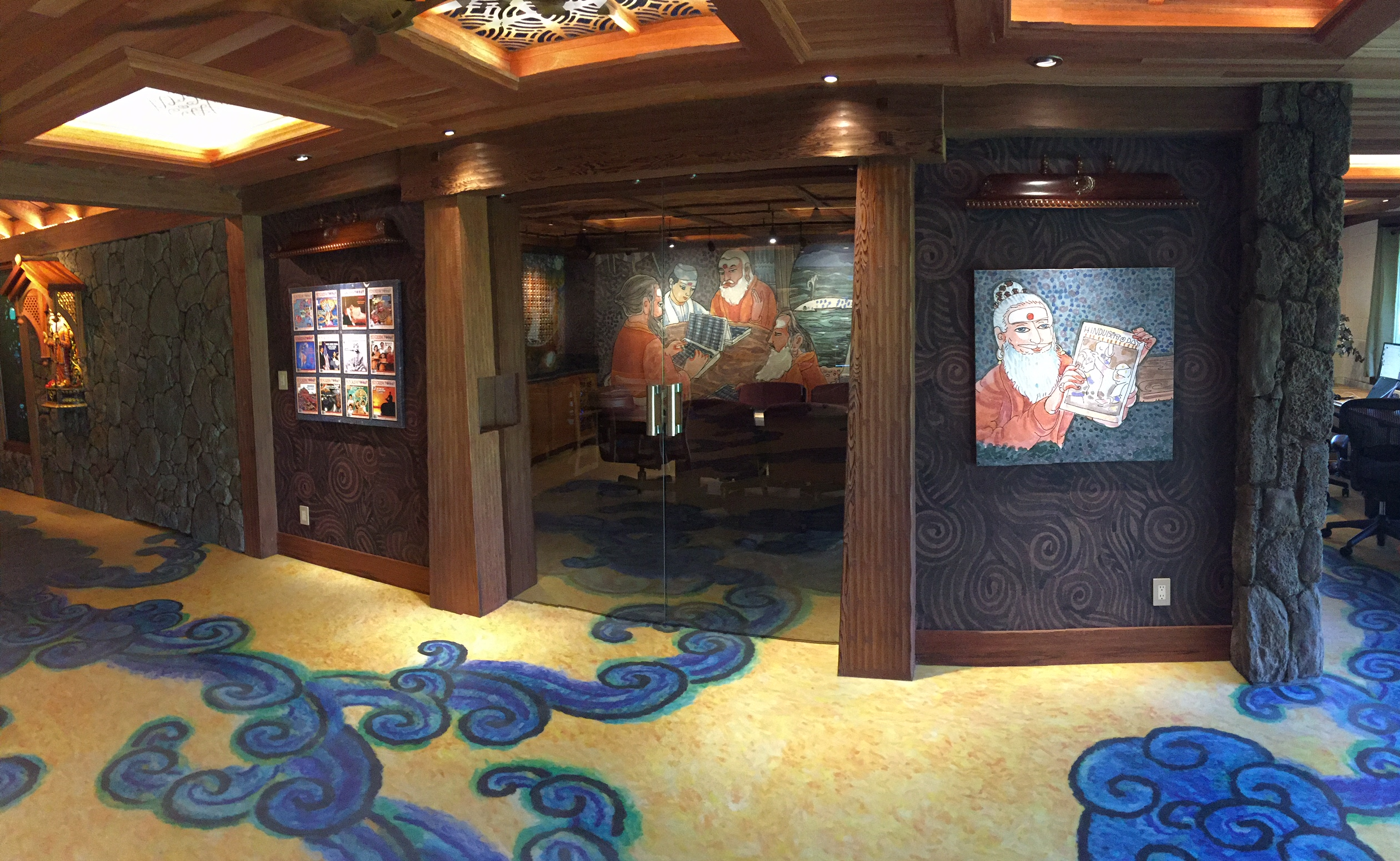 Inside the Media Studio, the headquarters for Hinduism Today on the island of Kauai